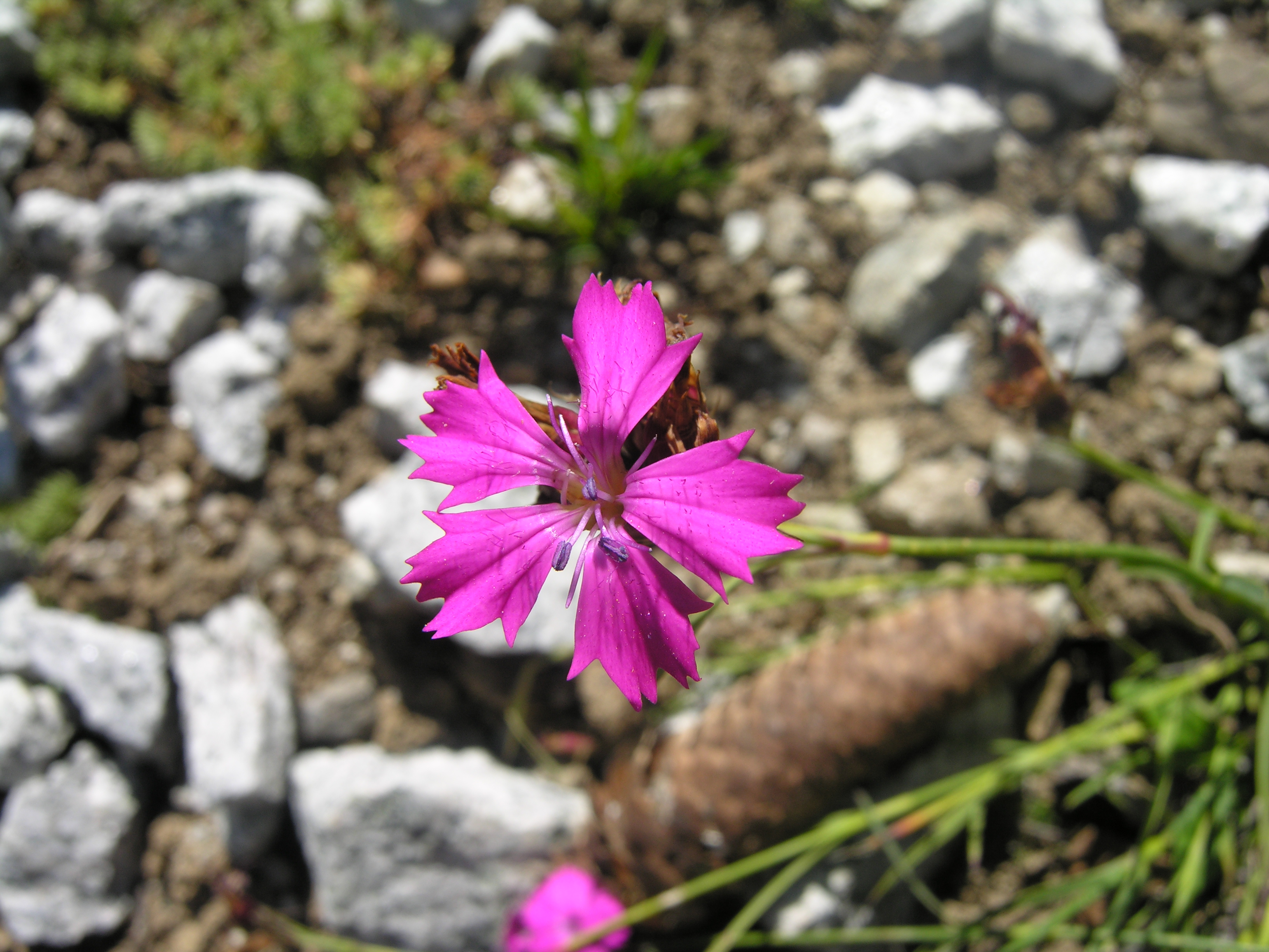 Dianthus carthusianorum, found at Schynige Platte (near Interlaken), Switzerland, 1800 m above sea level, beginning of August.